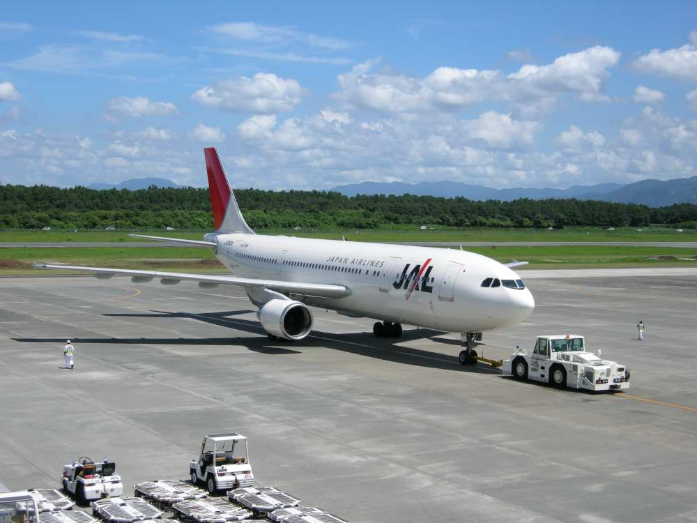 JAL・Japan Airlines Kumamoto Airport A300-600R （JA8566） August 7, 2009